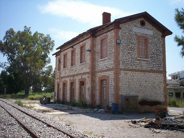 The messologi station building